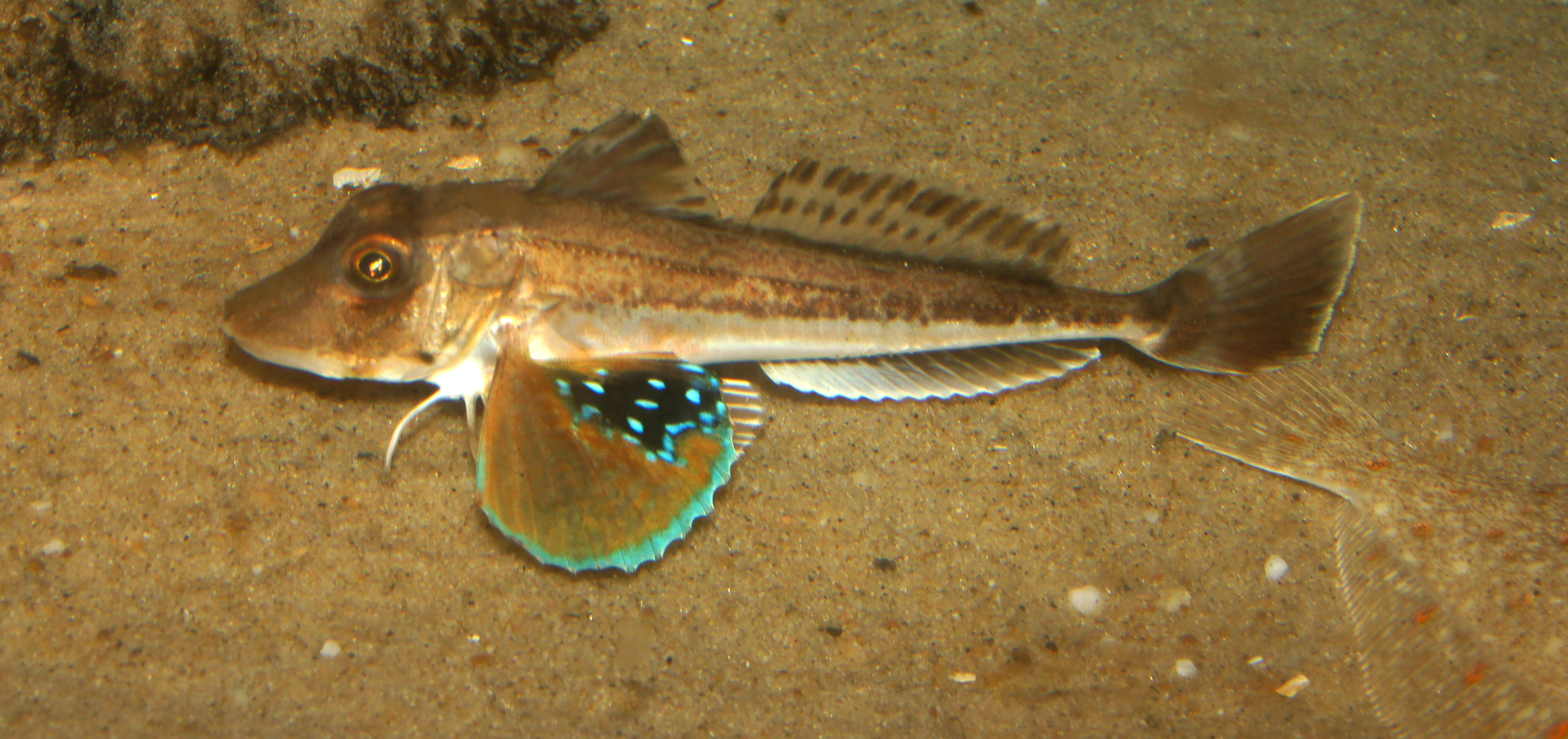 tub gurnard (Chelidonichthys lucerna) juvenile